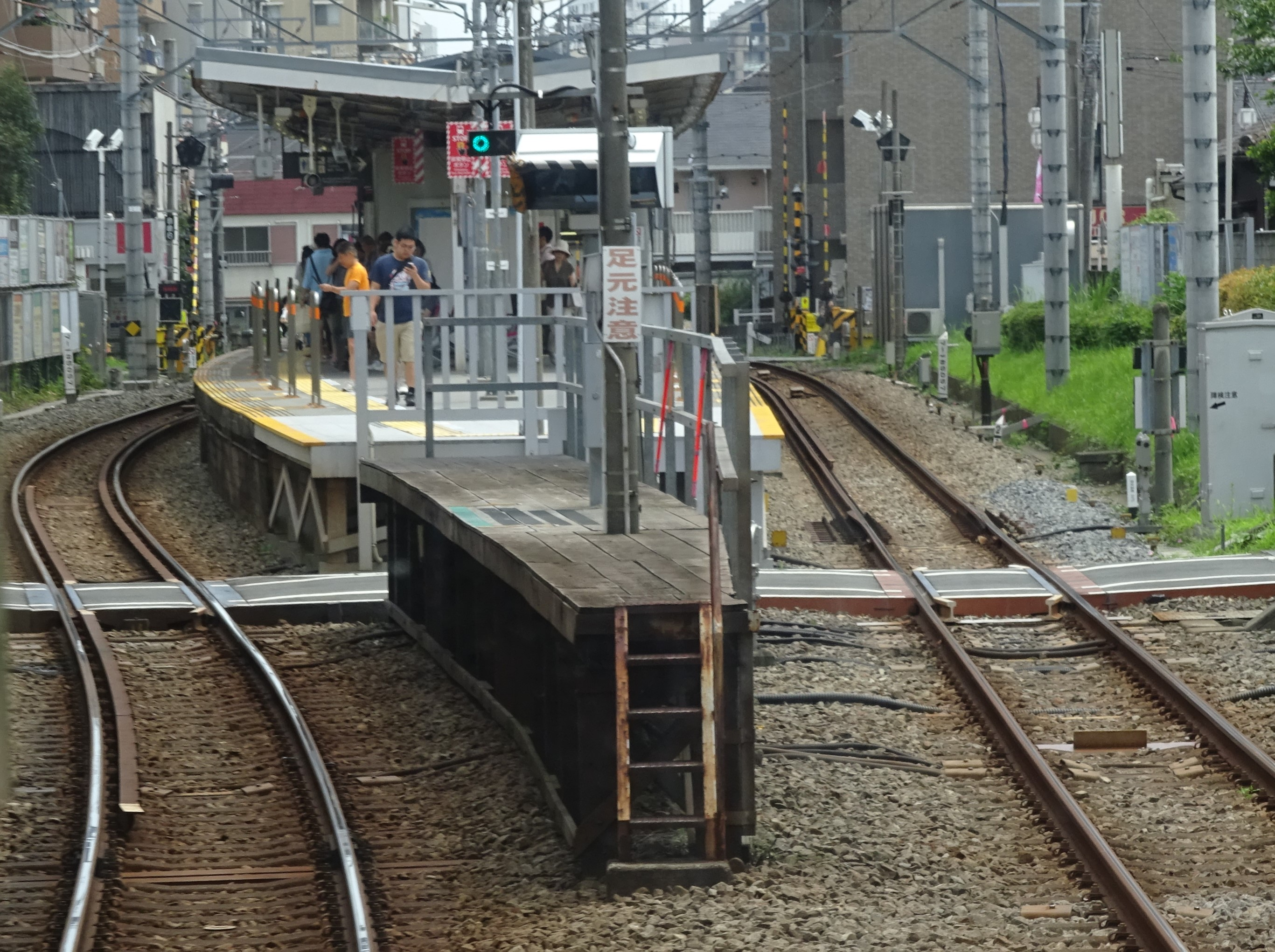 Platforms of Kuhombutsu Station